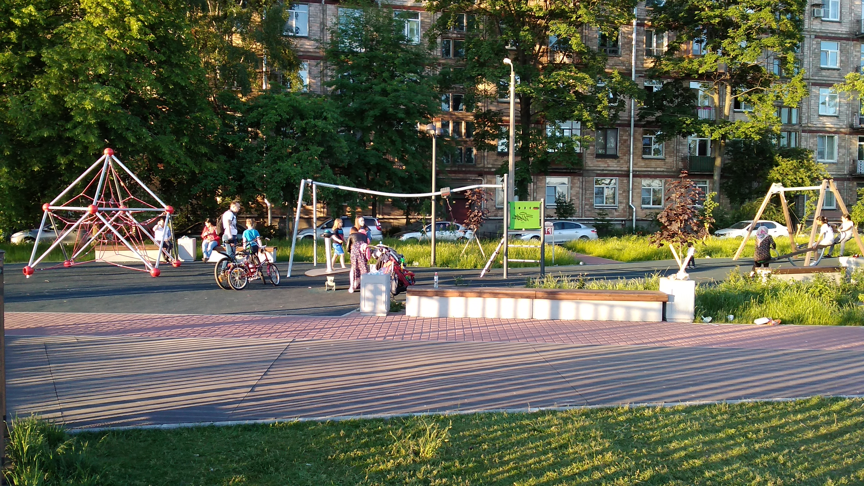 Ivanovsky pond playground